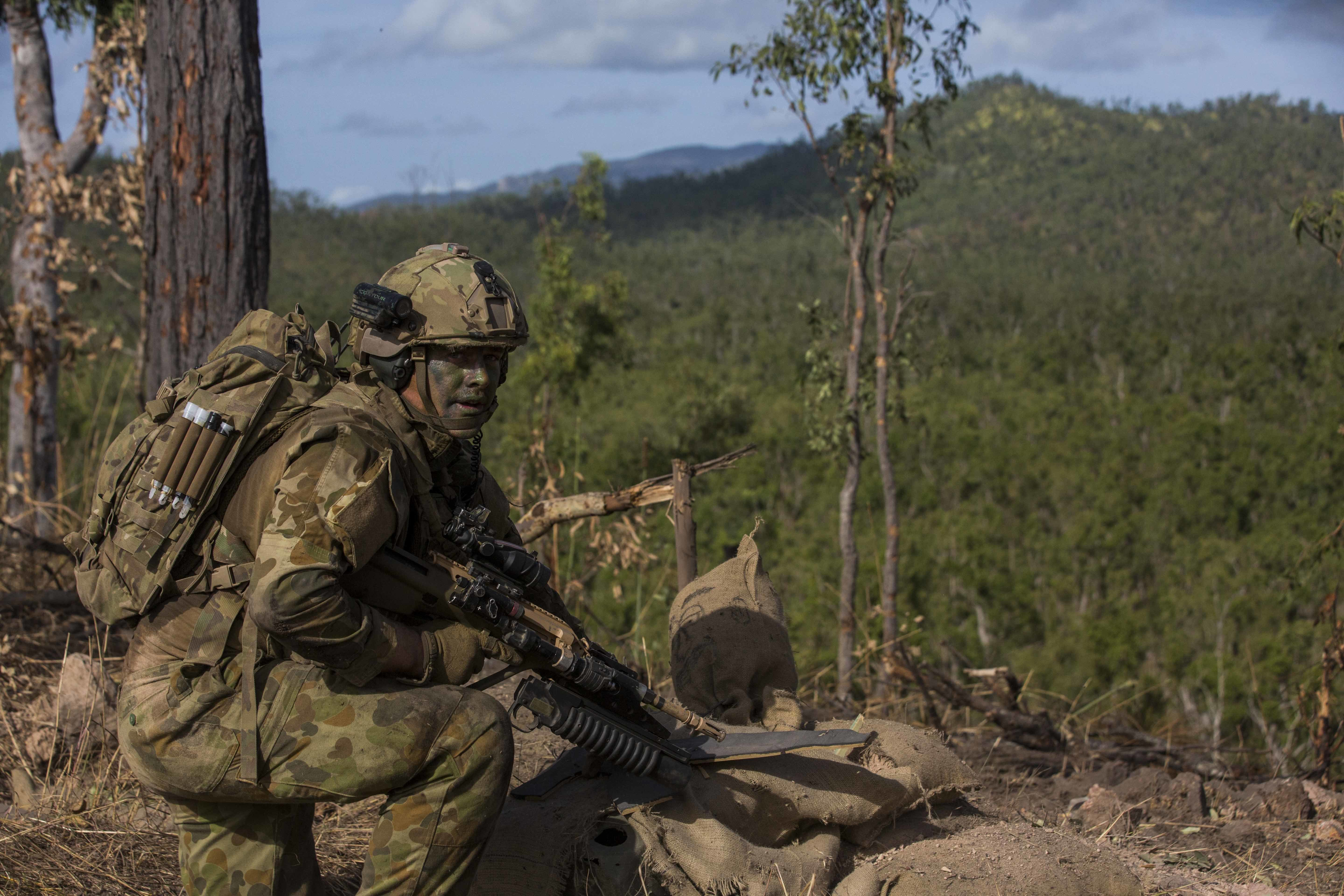 Members of the Australian Army with Battle Group Waratah, 8th Brigade, perform synchronized combat arms training at Shoalwater Bay, Queensland, Australia, May 23, 2016. The combat arms training was part of Exercise Southern Jackaroo, a combined training opportunity during Marine Rotational Force – Darwin (MRF-D). MRF-D is a six-month deployment of Marines into Darwin, Australia, where they will conduct exercises and train with the Australian Defence Forces, strengthening the U.S.-Australia alliance. (U. S. Marine Corps Photo by MCIPAC Combat Camera Lance Cpl. Osvaldo L. Ortega III/Released)